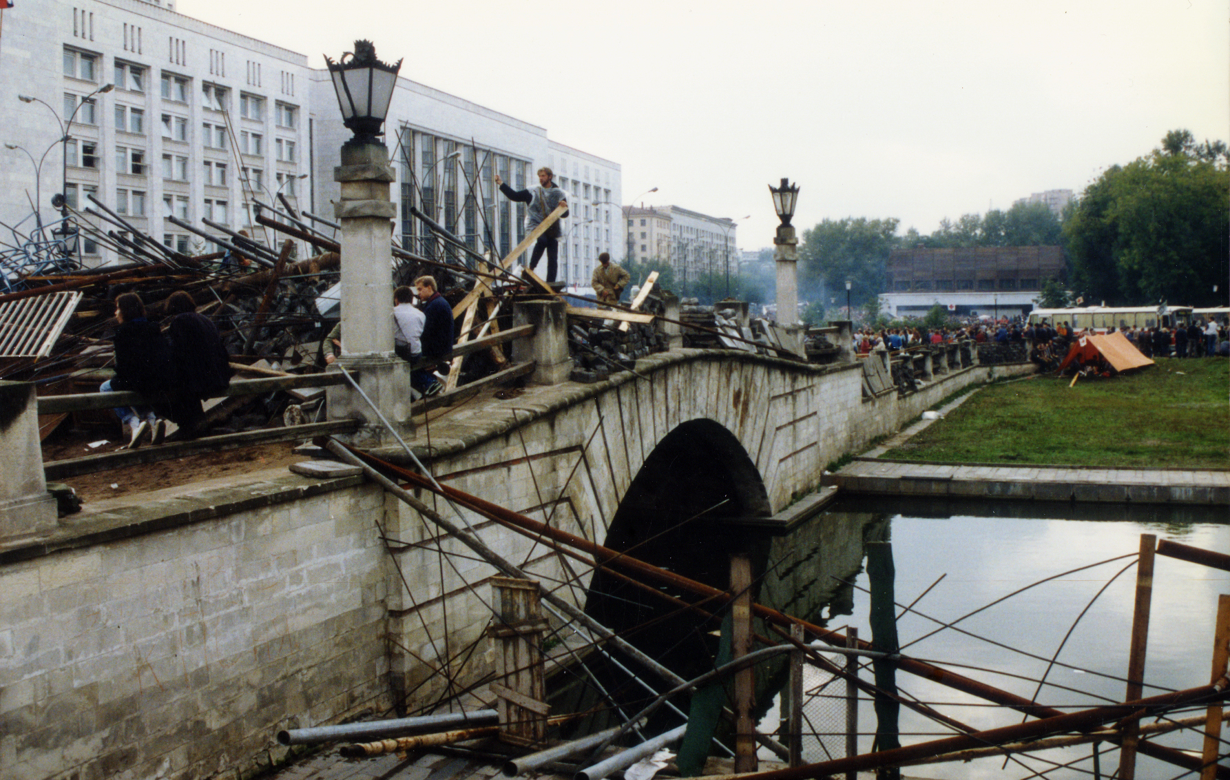 White House Moscow - August 1991 defences